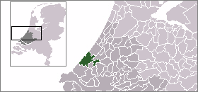 Location of The Hague in the Netherlands.